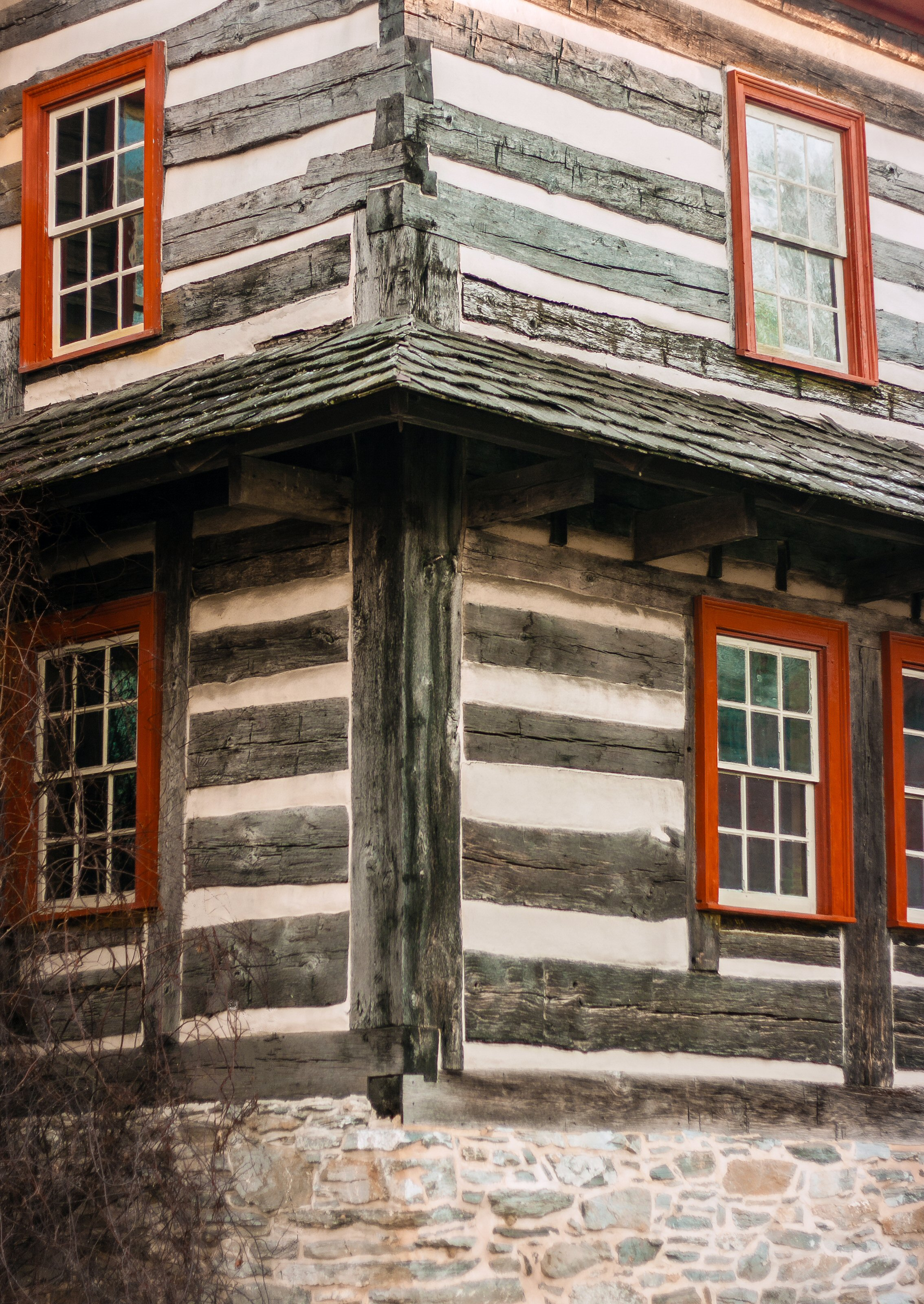 A photo of a corner post on the log farmhouse at the Hess Homestead